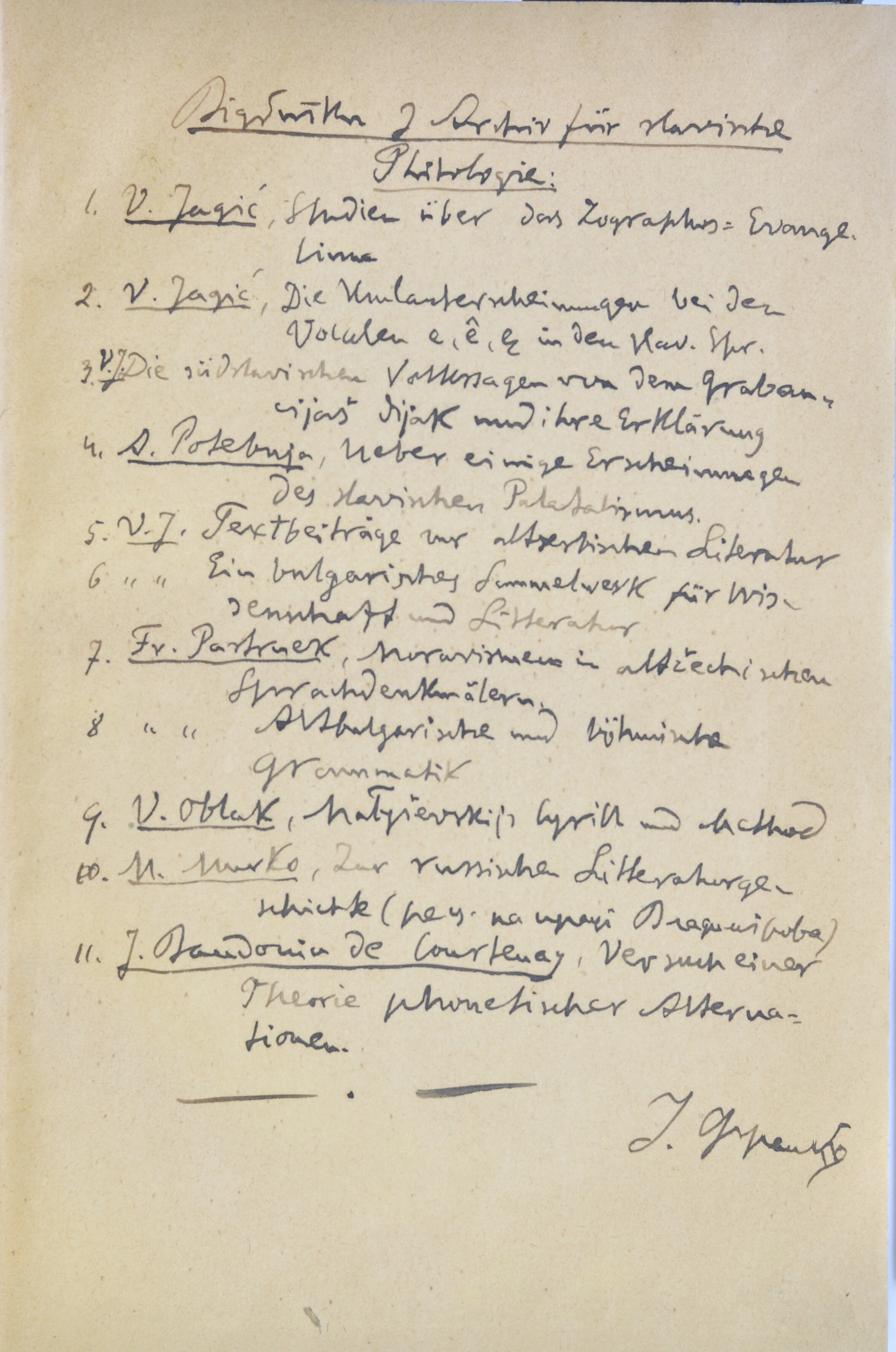 From Ivan Franko personal Library